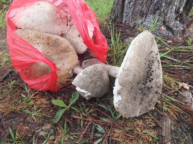 Amanita sinensis Zhu L. Yang Image location: Sagada, Philippines that it is a commonly collected mushroom for the table by tribal mountain people. Another commonly collected mushroom from the area is this pic. It could be the same mushroom. Used references: RET’s comments & description at the WAO site + imagery from Google For more information about this, see the observation page at Mushroom Observer.